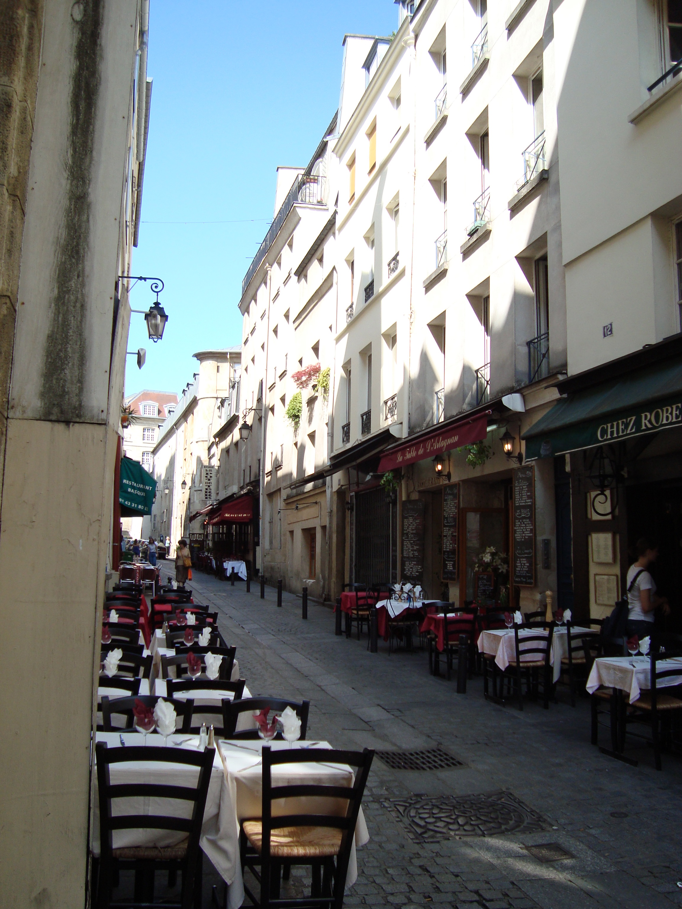 Rue du Pot-de-Fer in Paris